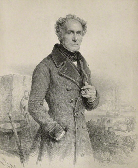 Lithograph of Thomas Potter Cooke (1786–1864), English actor.